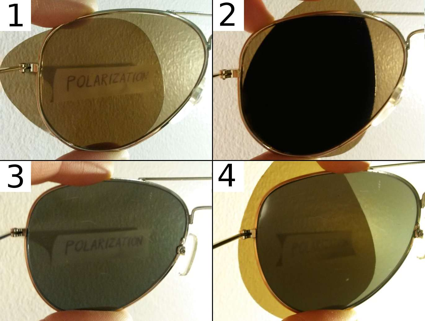 This picture shows a test to determine if sunglasses are polarized or not. 1: Two polarized sunglass lenses with polarizations parallel to each other. Polarized light comes through. 2: Two polarized sunglass lenses with one of the lenses rotated to a 90° angle relative to the situation in picture 1. Almost no light comes through due to all of it being blocked. This is described by Malus' law. 3: One non-polarized sunglass lens. Non-polarized light comes through. 4: One non-polarized and one polarized sunglass lens rotated to a 90° angle relative to their normal orientation in the sunglass frames. Polarized light comes through. Sunglasses (or at least one of the lenses) are not polarized if the near complete blockage of light seen in picture 2 is not observed when one of the lenses is removed and rotated in front of the other lens. Sunglasses known to be polarized can also be used to test other sunglasses in a similar manner by rotating them in front of the sunglasses being tested.